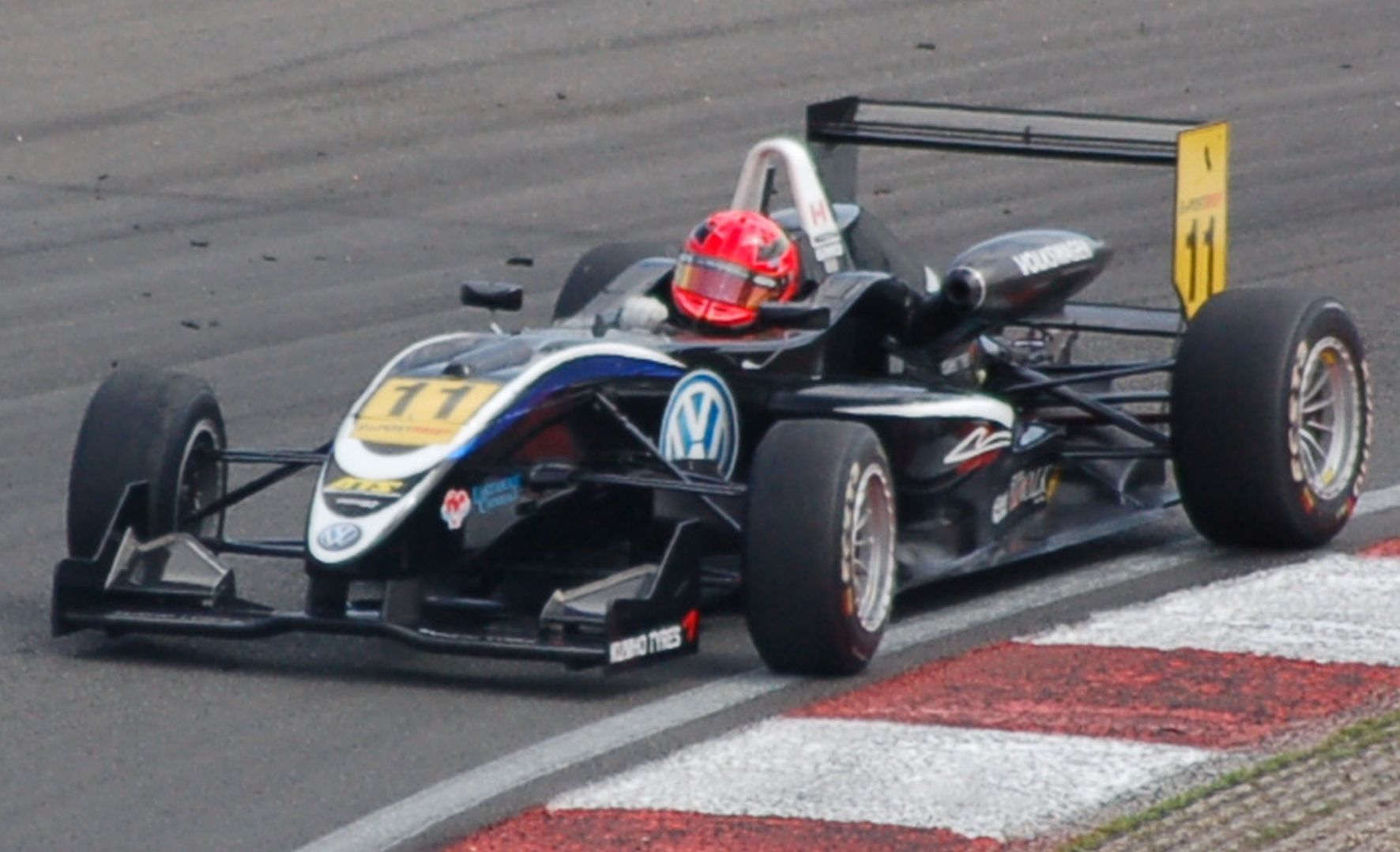 Gianmarco Raimondo at Zandvoort 2011